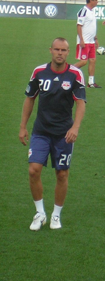 Joel Lindpere warming up with NY Red Bulls before 7/17/10 game at Columbus Crew